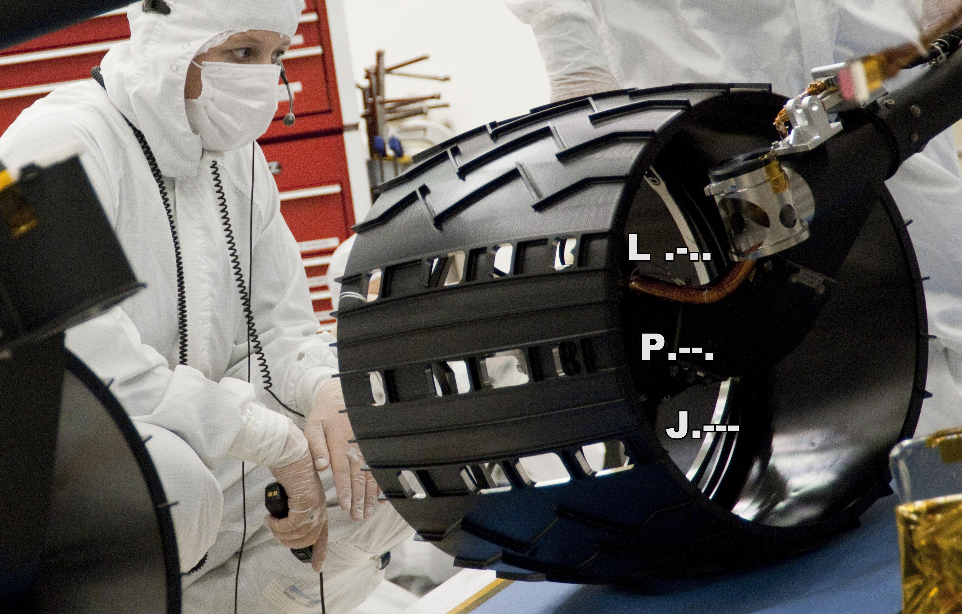 Detail of Mars Science Laboratory Curiosity Rover with tread pattern which will leave an impression on the Martian surface spelling "JPL" in Morse code (·--- ·--· ·-··)